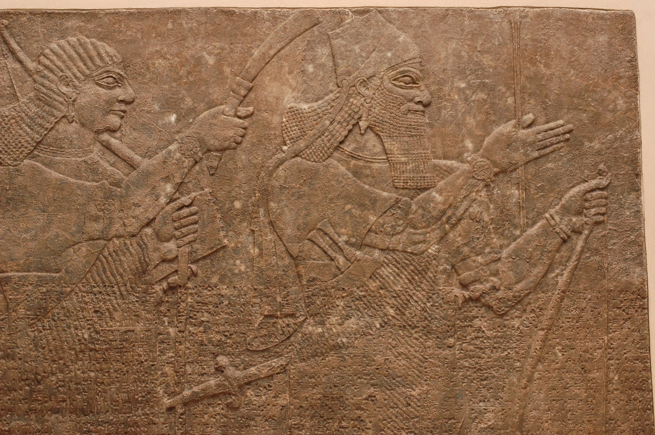 Assyrian king Ashur-nasir-pal II (883–859 BC) and his squire. Relief found in the palace of Ashur-nasir-pal II at Nimrud. Gypsum alabaster, ca. 865 BC.